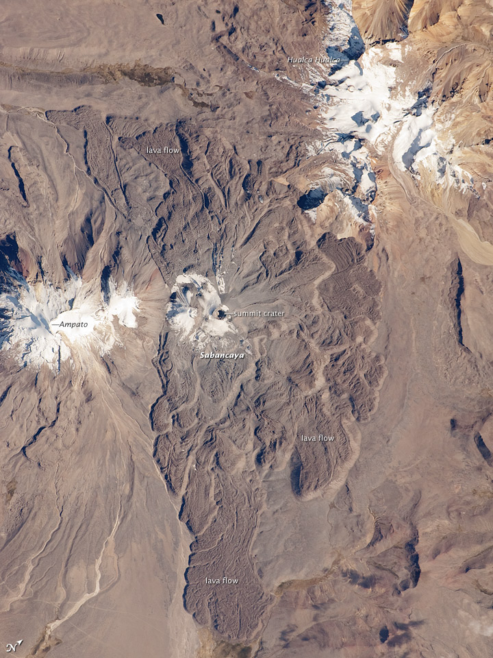 Sabancaya & Ampato Volcanoes, Peru